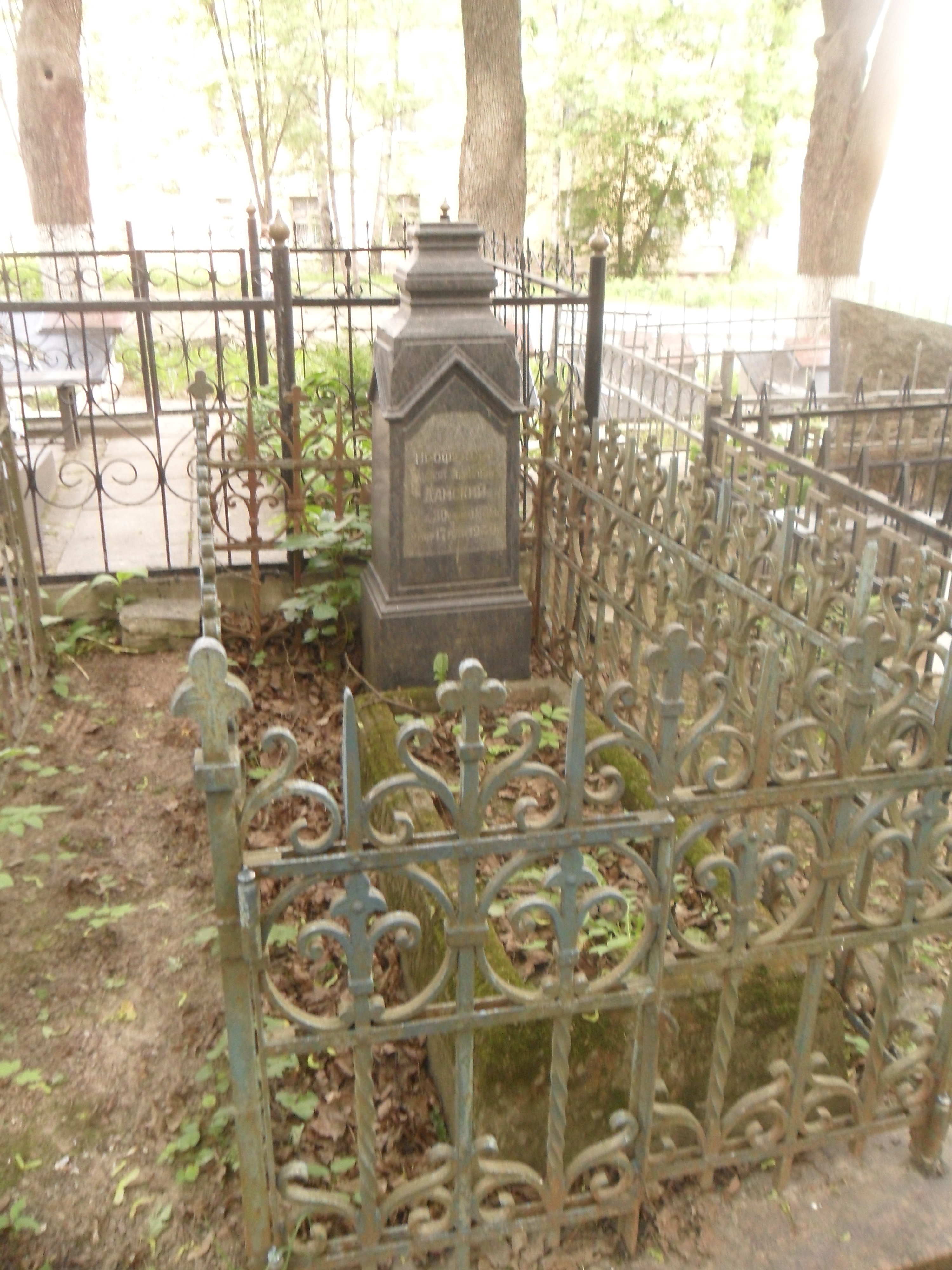 The tomb of Professor Albert Damsky at the cemetery, "Blade" in Smolensk.